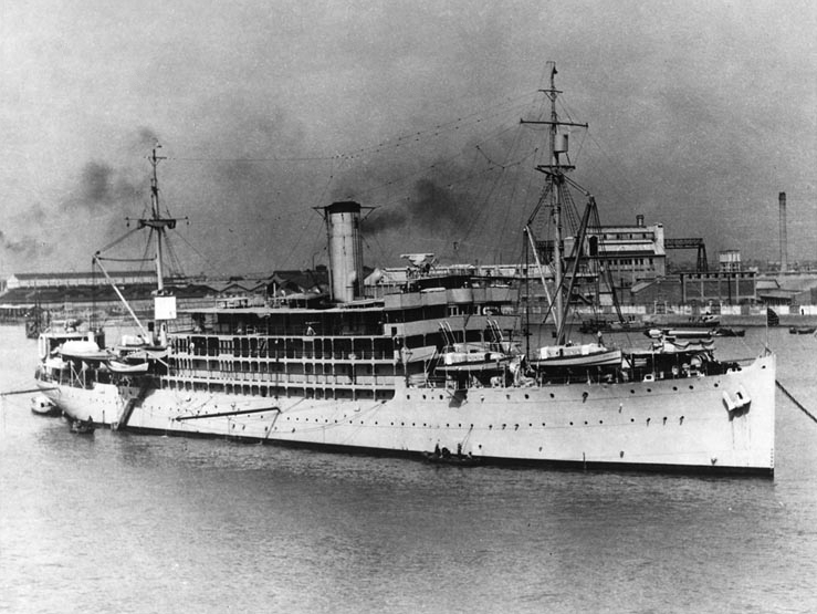 The U.S. Navy submarine tender USS Canopus (AS-9) off Shanghai, China, prior to World War II. Note the motion picture screen attached to the front of Canopus´ mainmast.